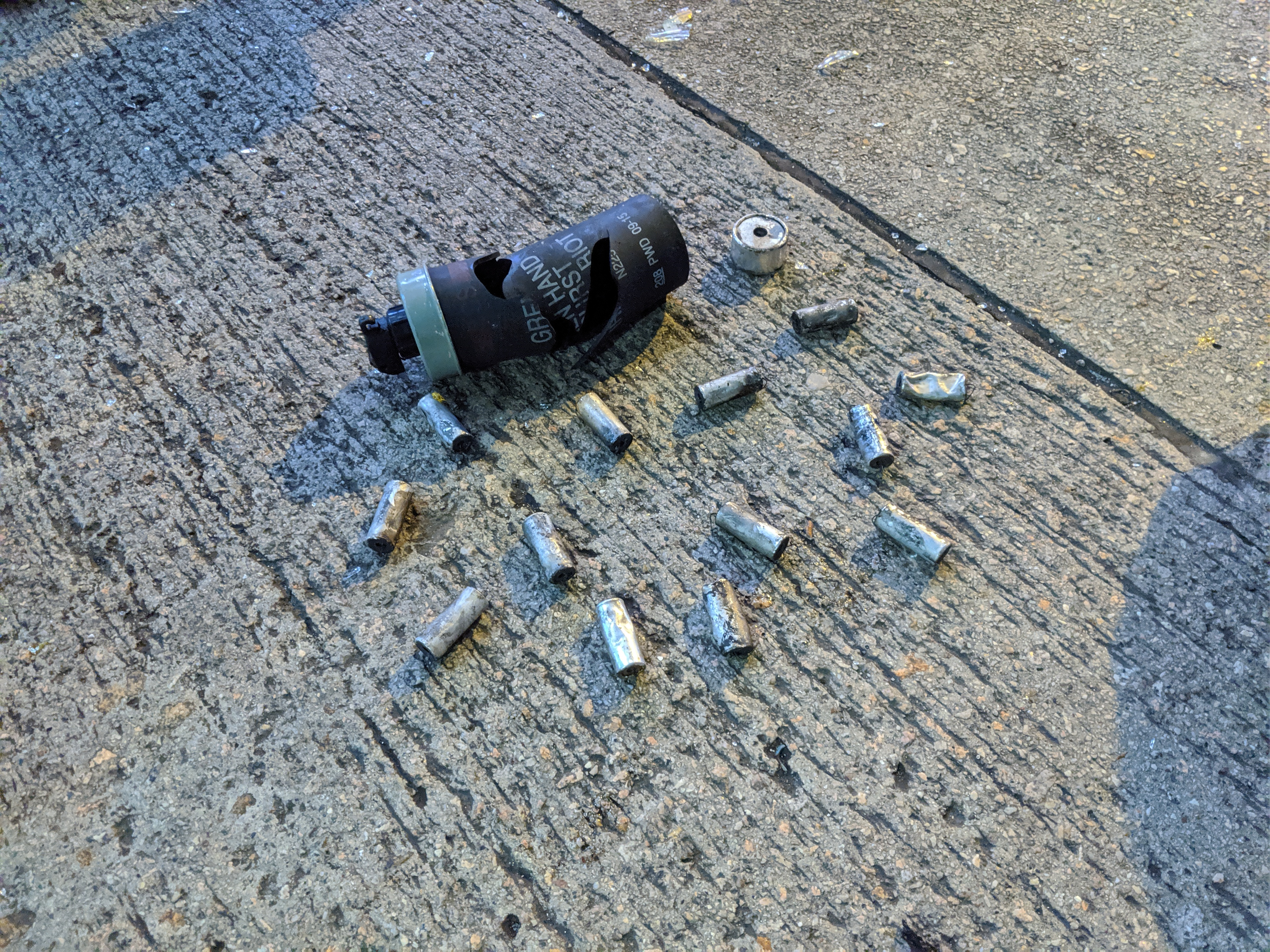 2019 Hong Kong anti-extradition law protest on 28 July 2019 in Hong Kong Island, captured by Studio Incendo from Flickr.